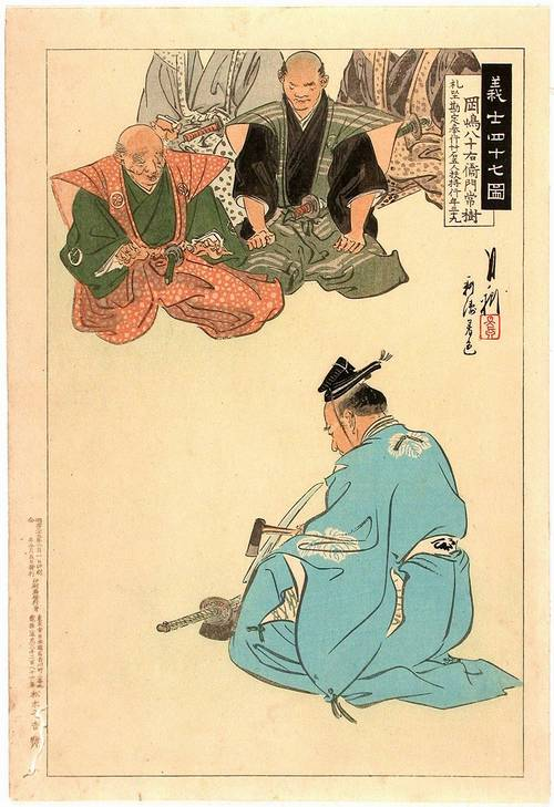 Ronin are masterless samurai. Chushingura is the true story of 47 samurai who became masterless in 1701, after their lord had been forced to commit ritual suicide (seppuku) for assaulting a court official who had insulted him. They avenged him by killing the court official after patiently planning for over a year. They were themselves then forced to commit seppuku.